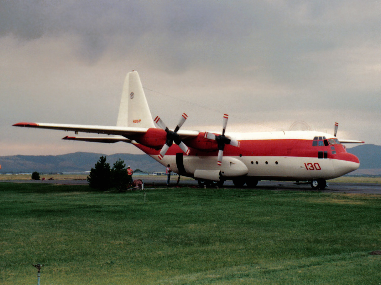 N130HP Tanker 130 circa early 2002 at Union Co. Airport, La Grande, Oregon In Memory of the crew of Tanker #130 pilot Steve Wass, co-pilot Craig Labare, flight engineer Michael Davis Lost in the line of duty, June 17, 2002, Walker, CA. Their summer home base had been at La Grande, OR. Was owned by Hawkins & Powers in Greybull, WY.C-130A Hercules, Tanker #130, (N130HP)